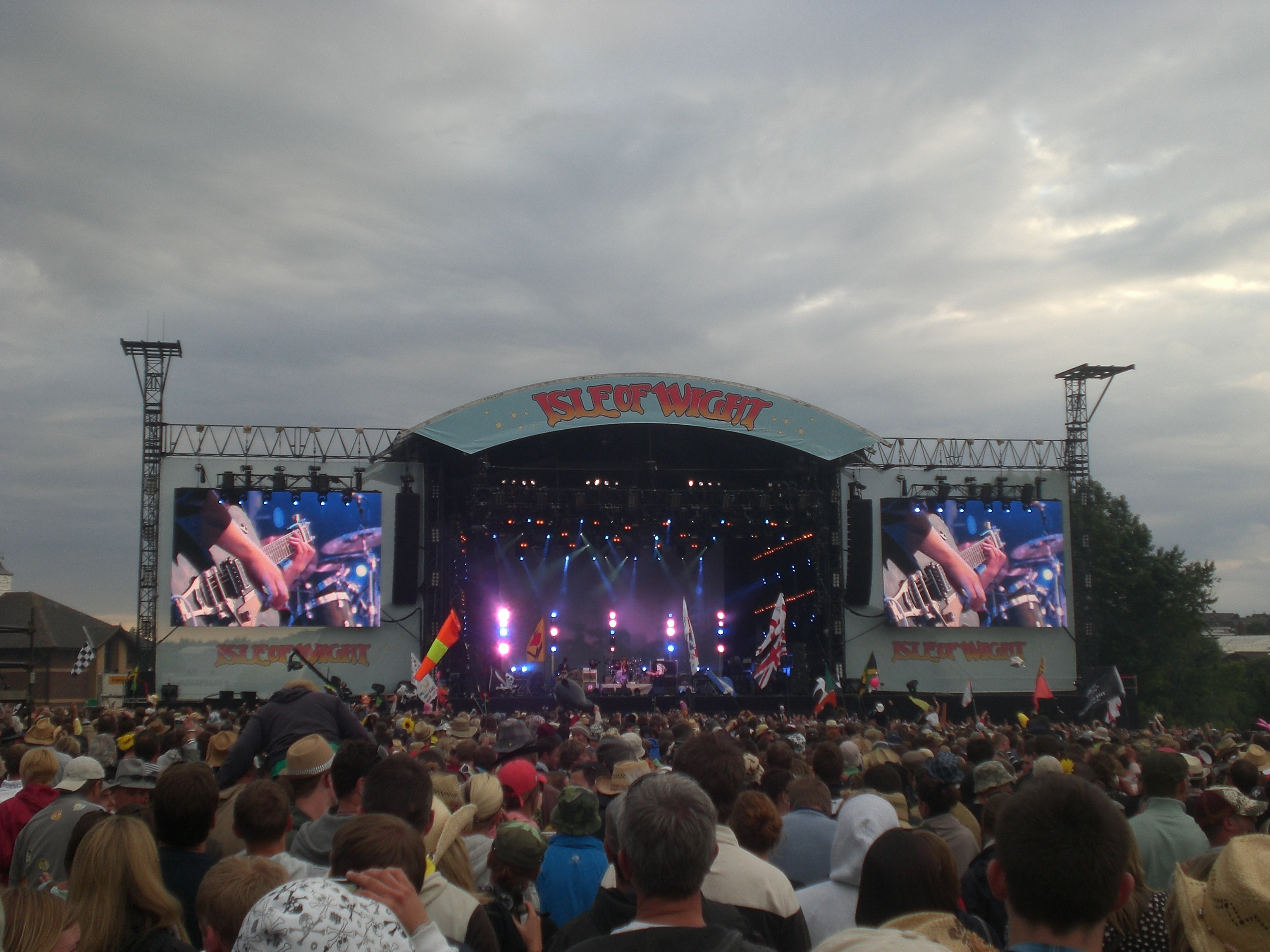 The main stage at the Isle of Wight Festival 2008.